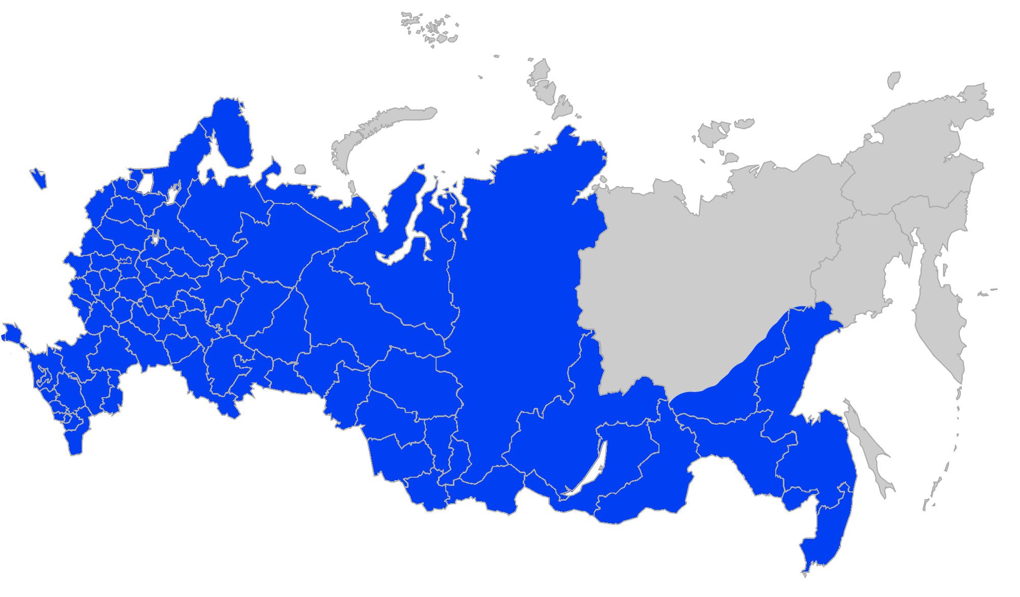 Unified Energy System of Russia (blue areas on the map; isolated regions are shown in grey). Crimean Peninsula is plugged into the system, too (unlawfully annexed in 2014, violating the international law). Data source: [1] Map source: File:Map of federal cities of Russia (2014).svg.